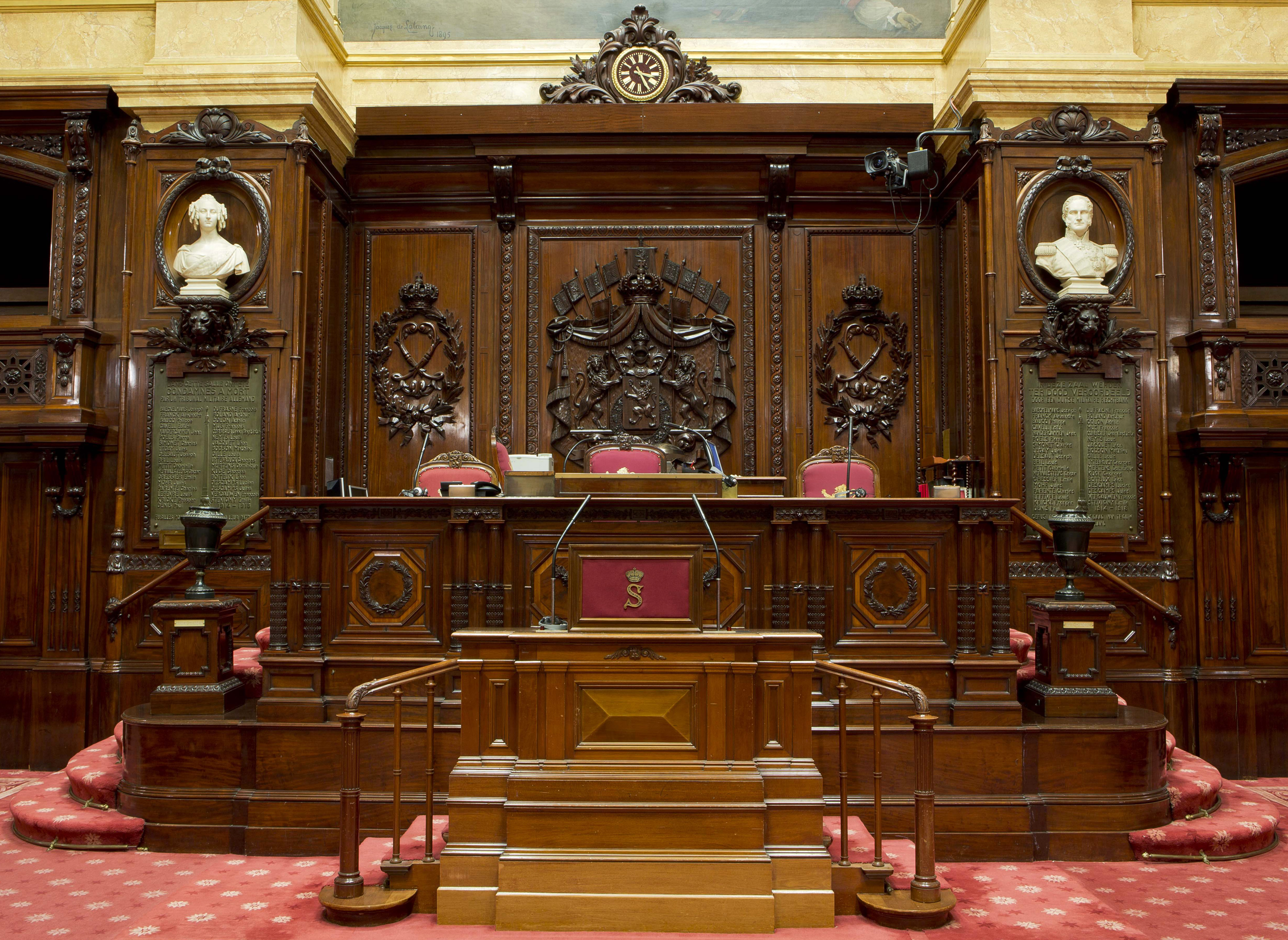 Senate of Belgium - platform and chair